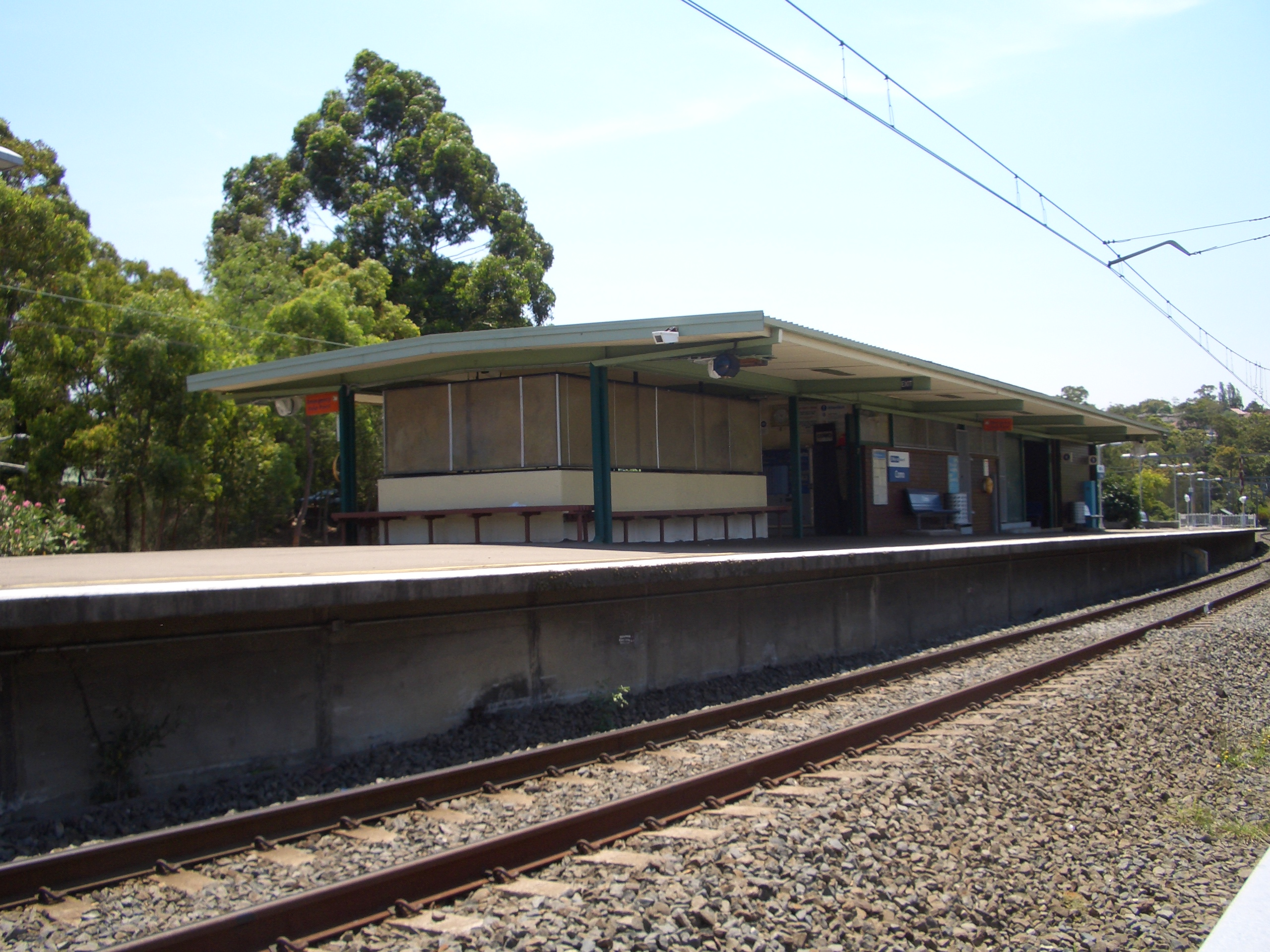 Como Railway Station